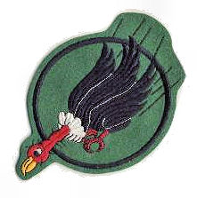 Emblem of the USAF 398th Fighter-Interceptor Squadron